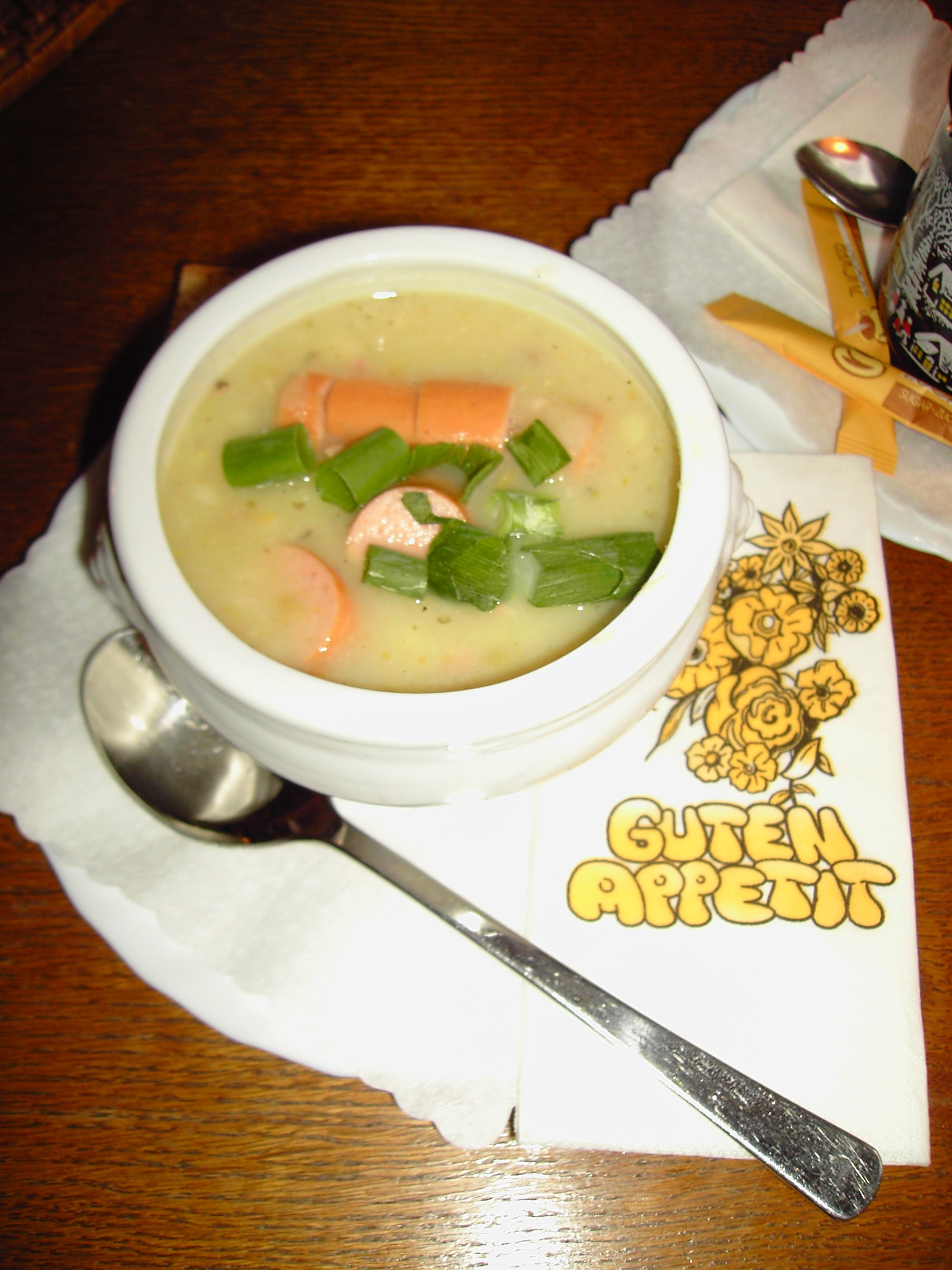 Kartoffelsuppe (potatoes soup), a traditional recipe from Germany. It has some pieces of Wiener Würstchen (Vienna sausage).